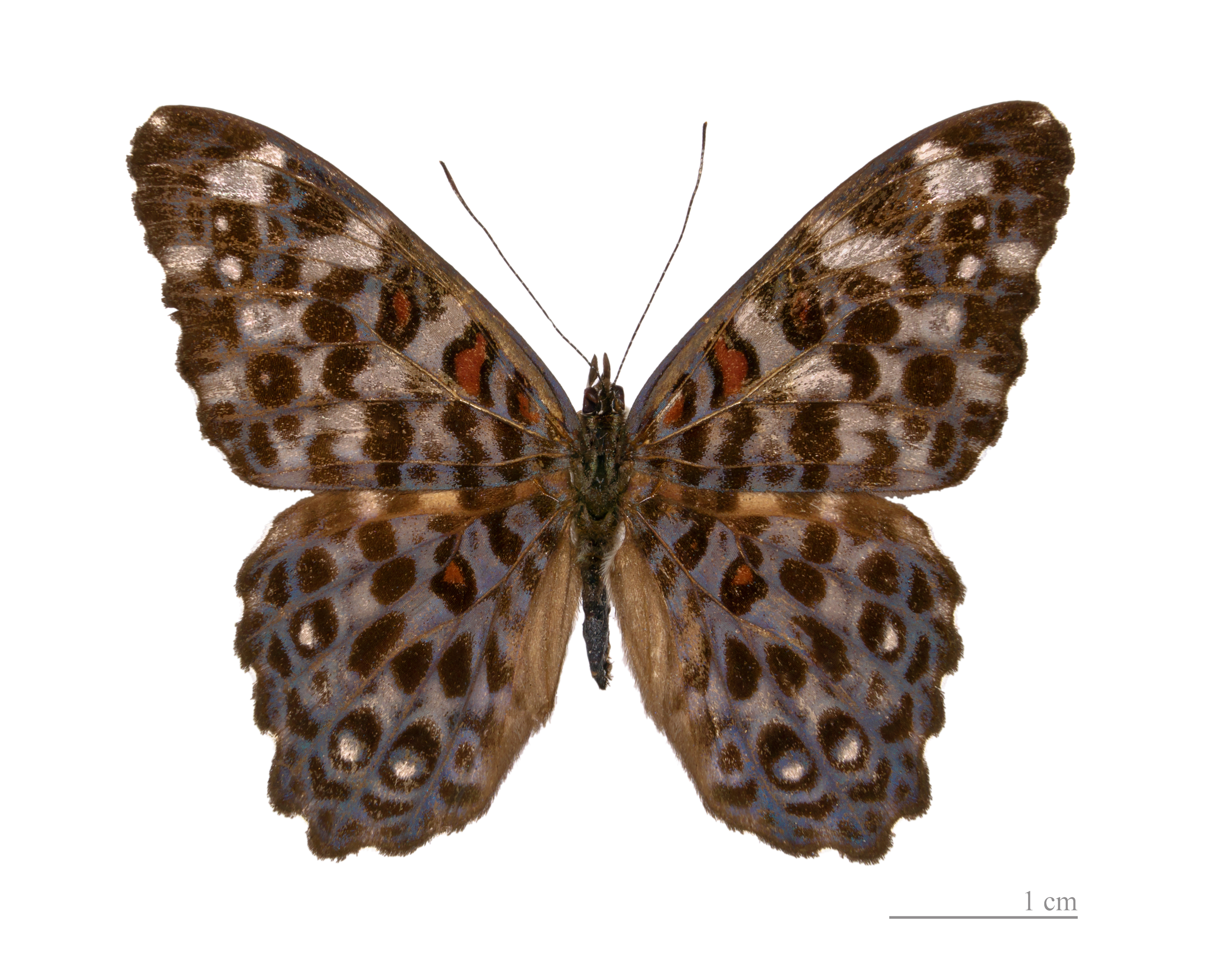 ♂ - Dorsal side Locality : Kaw road, departing runway Fourgassié, French Guiana.